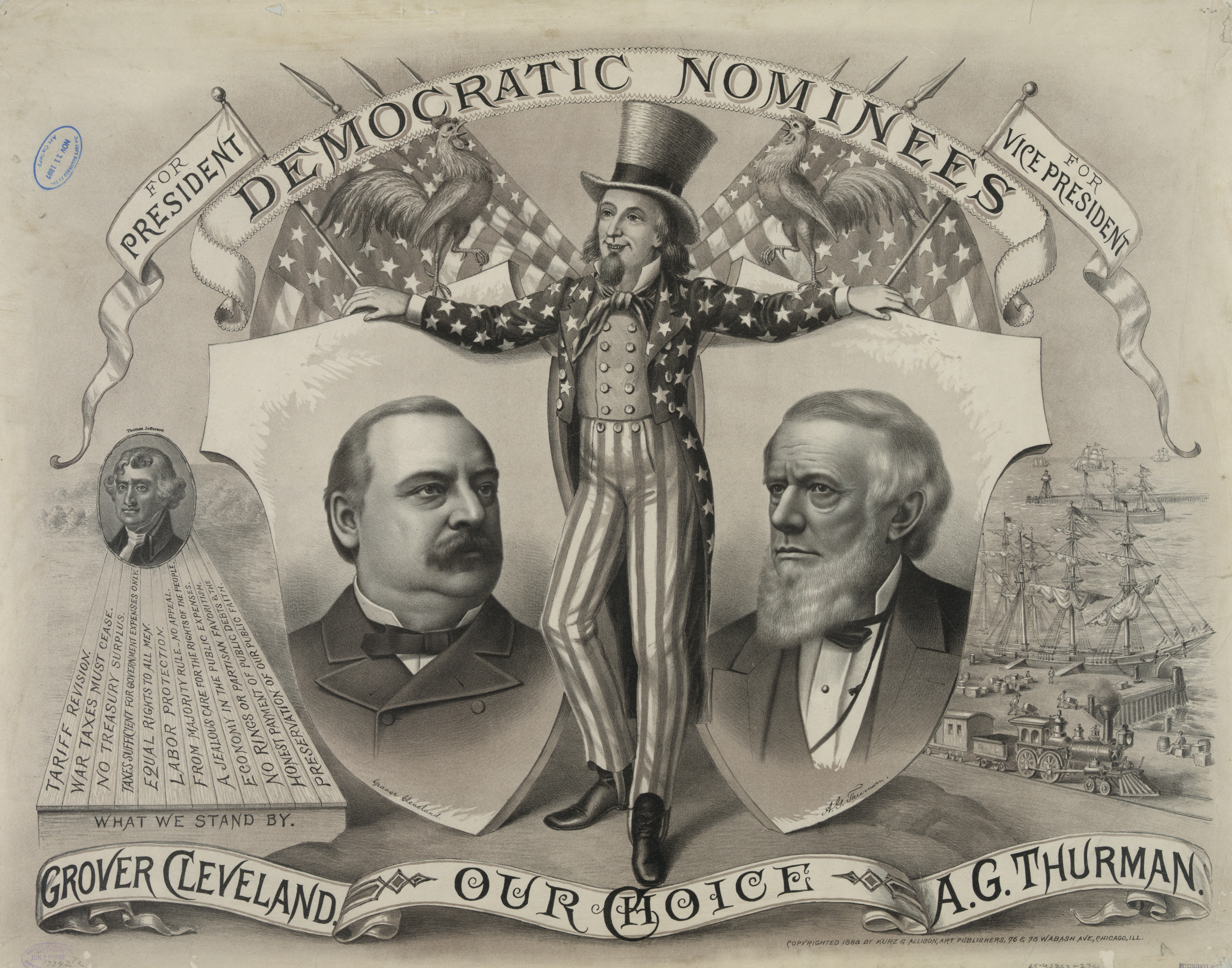 "Democratic nominees, for president [and] for vice president. Our choice, Grover Cleveland, A.G. Thurman." Print showing goateeed Uncle Sam standing with large shields on which are portraits of Grover Cleveland and A.G. Thurman, Democratic party nominees in the 1888 U.S. presidential election. Includes Democratic party platform, a cameo portrait of Thomas Jefferson, a dock scene with ship and railroad, and roosters--a symbol of the Democratic party before the donkey. Platform planks ("What we stand by") are: Tariff revision War taxes must cease No Treasury surplus Taxes sufficient for government expenses only Equal rights to all men Labor protection From majority rule -- No appeal A jealous care for the rights of the people Economy in the public expenses No Rings or partisan favoritism [i.e. no crony capitalism] Honest payment of public debts & the Preservation of our public faith (Note that "Equal rights to all men" did not actually mean that the Democratic party was any kind of advocate for black equality, something which did not really become the case until at least the 1940s.)